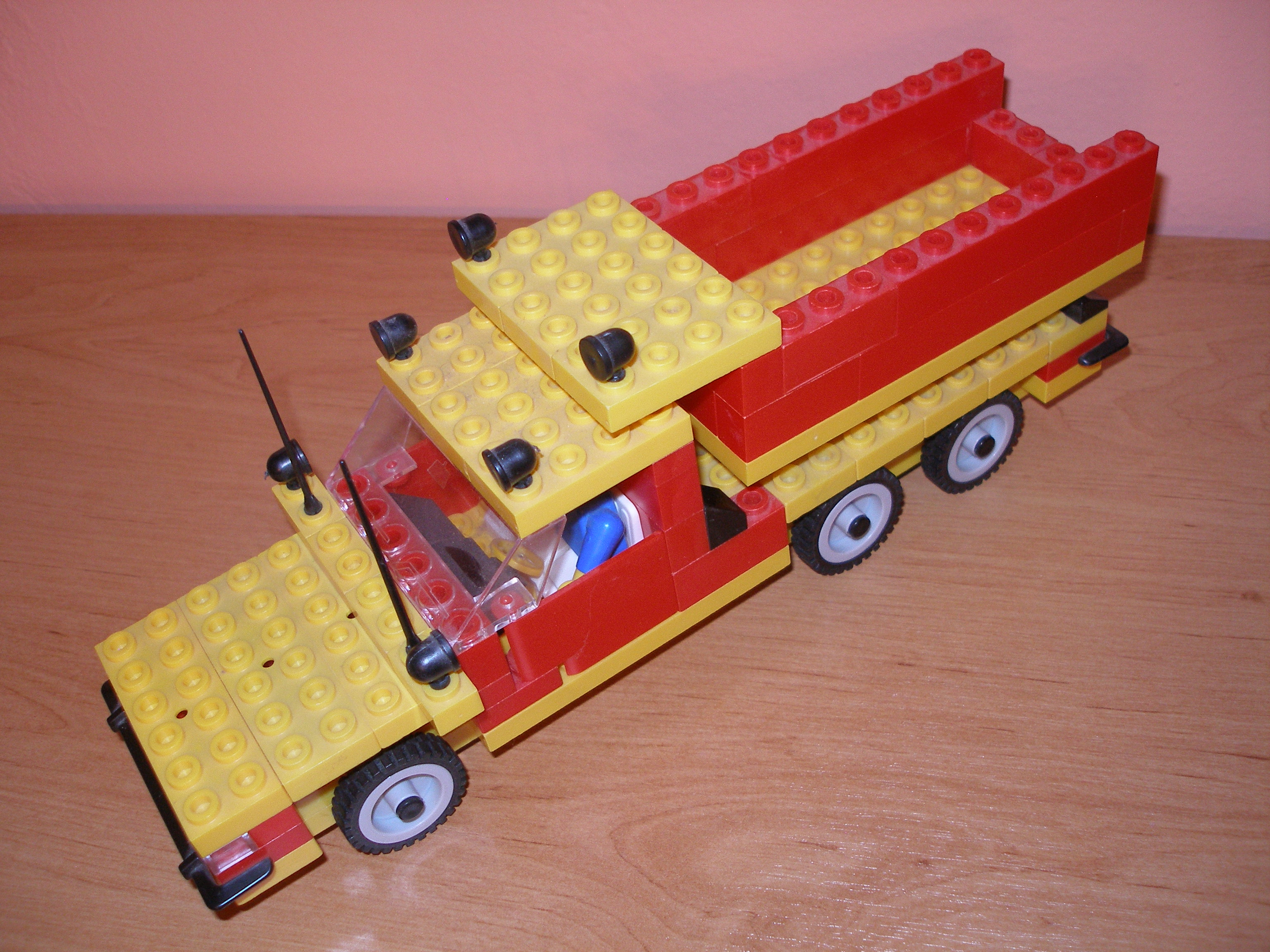 Dump Truck from Cheva.